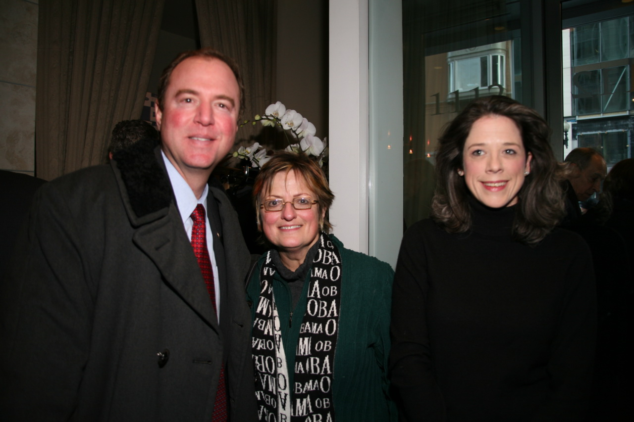 Congressman Adam Schiff (California's 29th Congressional District), California artist Maria Karras, and lobbyist Heather Podesta at a party hosted by the Podesta Group in Washington, DC to honor of the inauguration of Barack Obama.